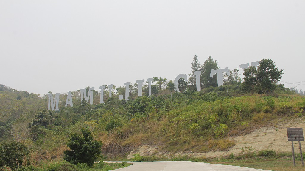 Mamuju Skyline